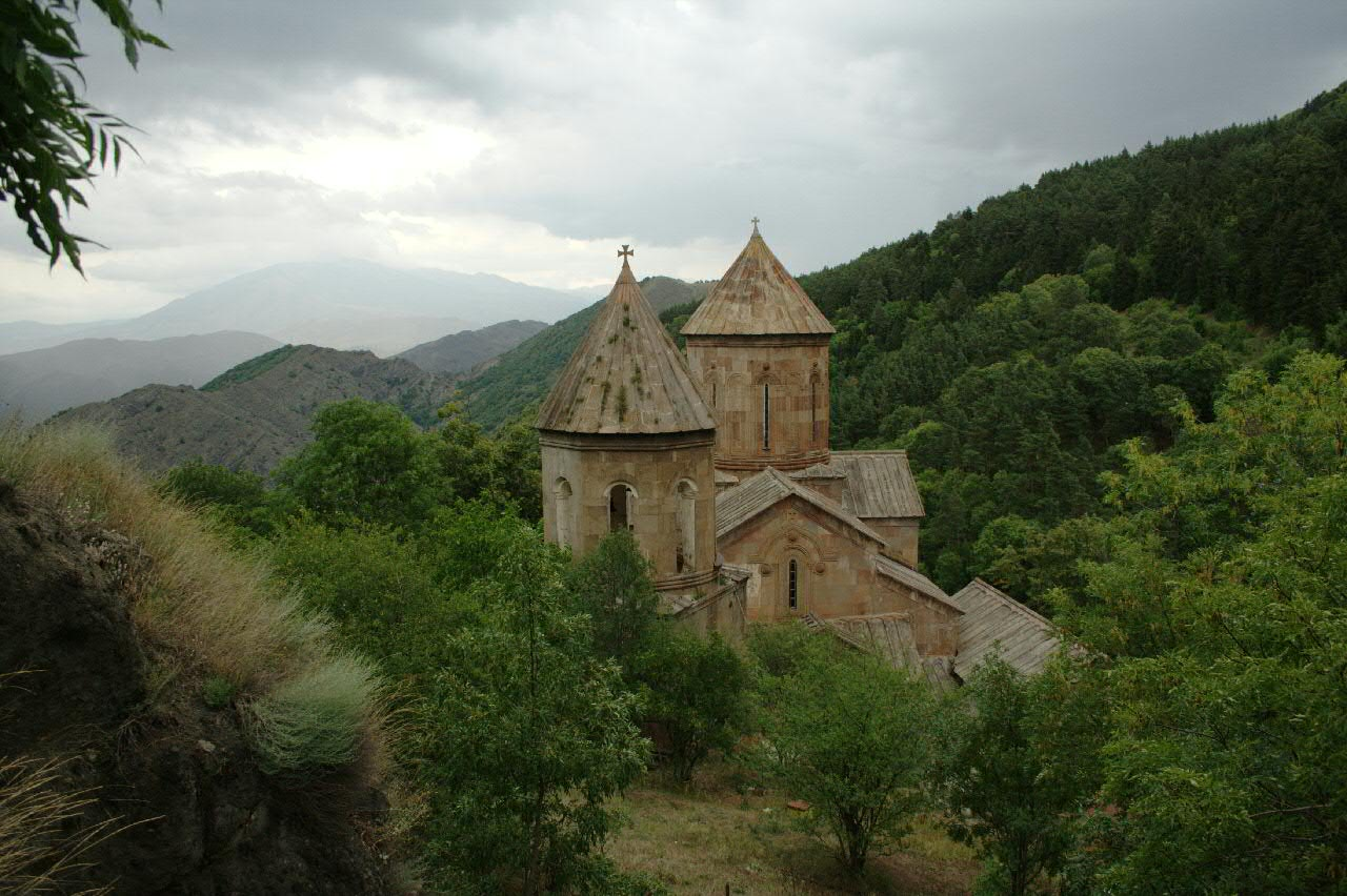 Sapara monastery (Georgia)